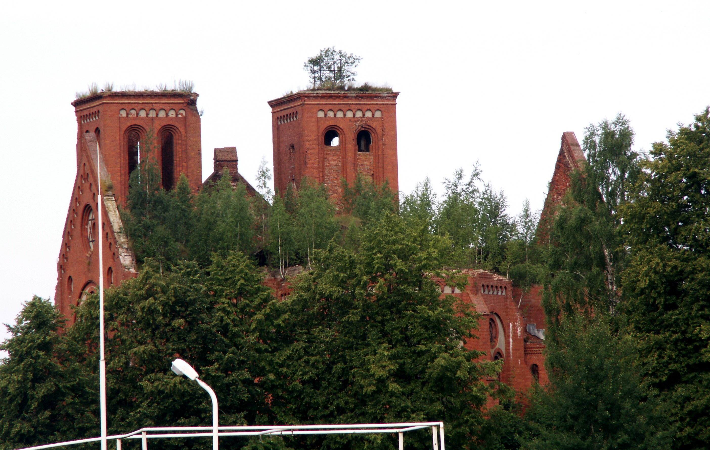 Chernyshevskoye